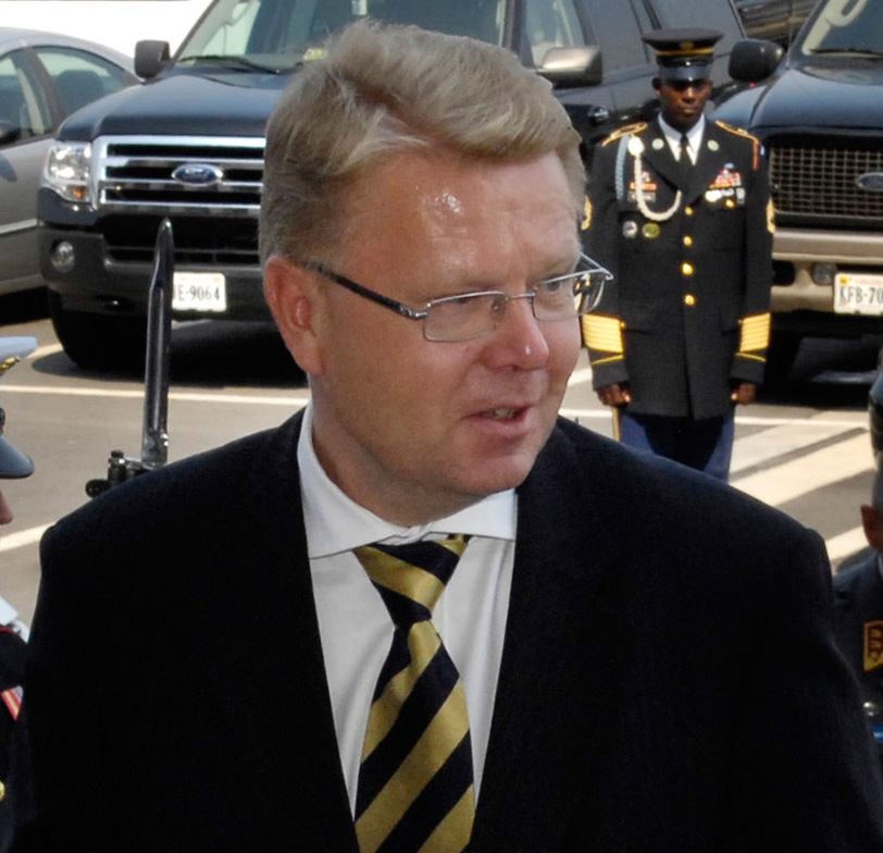 Jyri Häkämies, the Minister of Defence of Finland, at Pentagon. Cropped version to show Mr. Häkämies specifically.